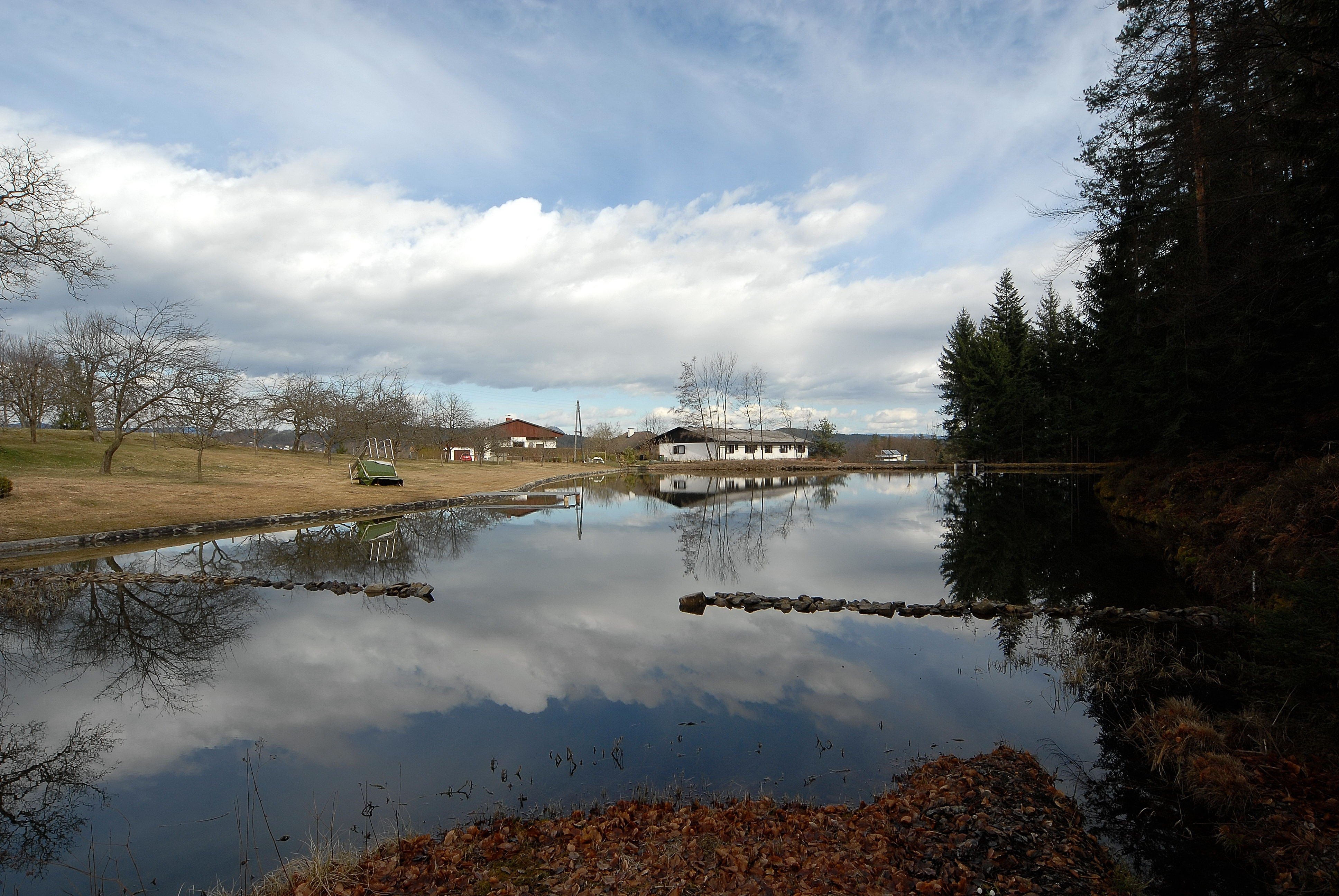 Early spring mood on a pond at Sekirn in the community Maria Woerth, district Klagenfurt-Land, Carinthia, Austria